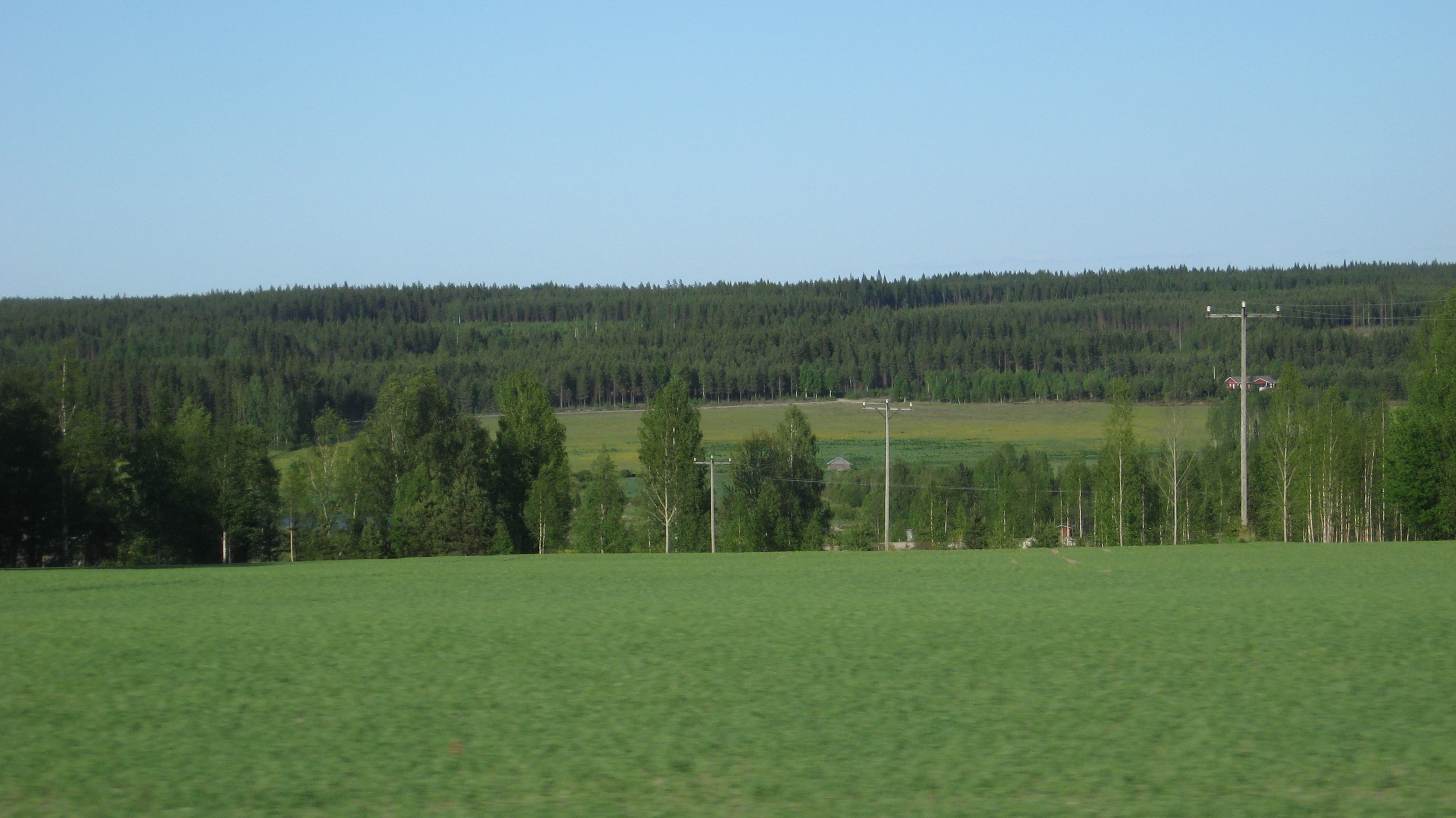 Hyypänjokilaakso valley in Hyyppä village, Kauhajoki, Finland.